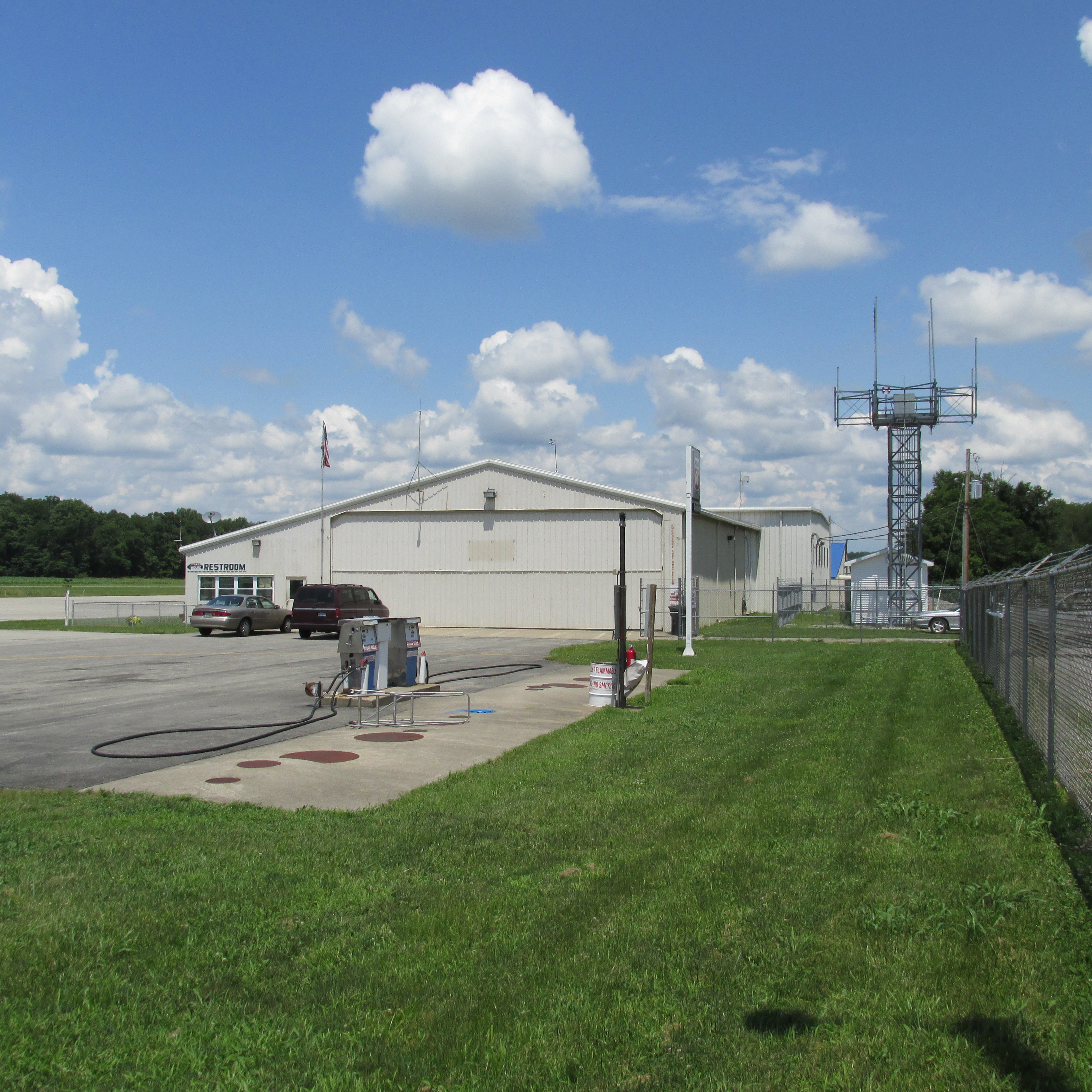 Main terminal building at the Highland County Airport.